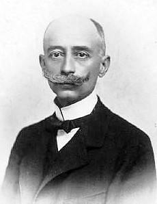 Brazilian composer and pianist Henrique Oswald (1852-1931).